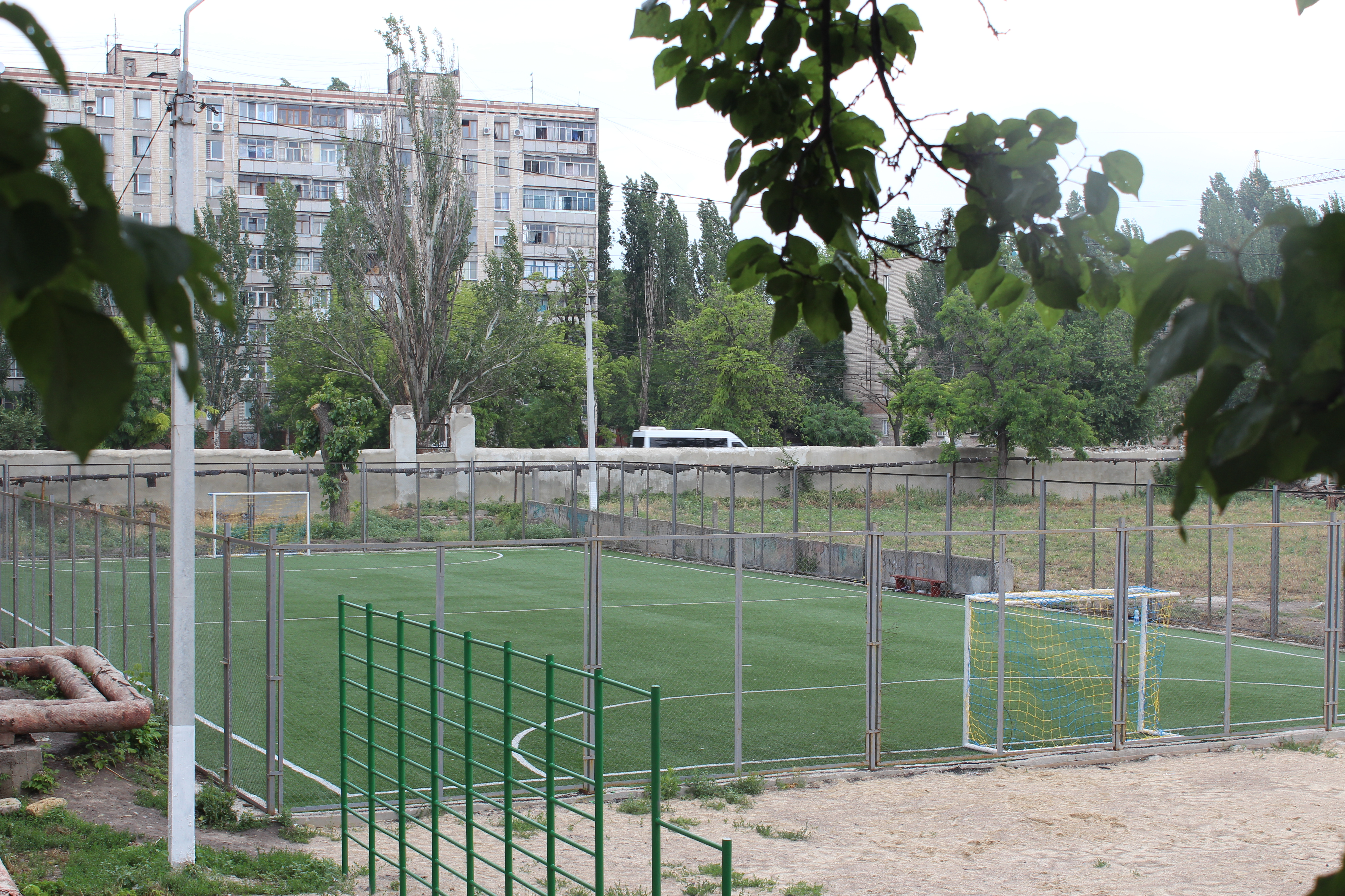 Pioner Stadium. Mykolaiv, Ukraine.